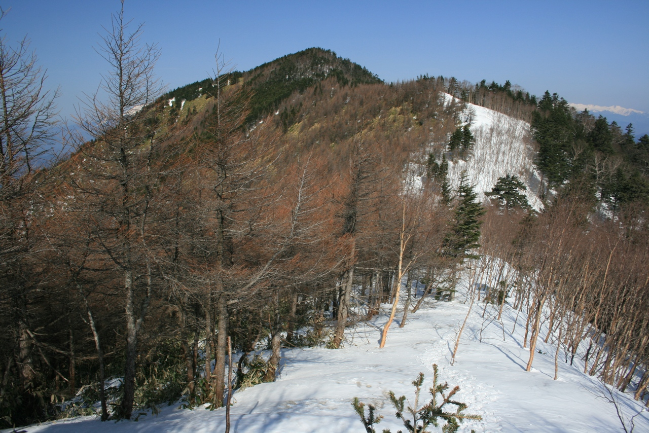 Kyougatake_cyuuou_Alps_2009-4-30